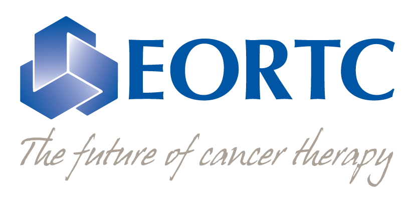 EORTC Logo